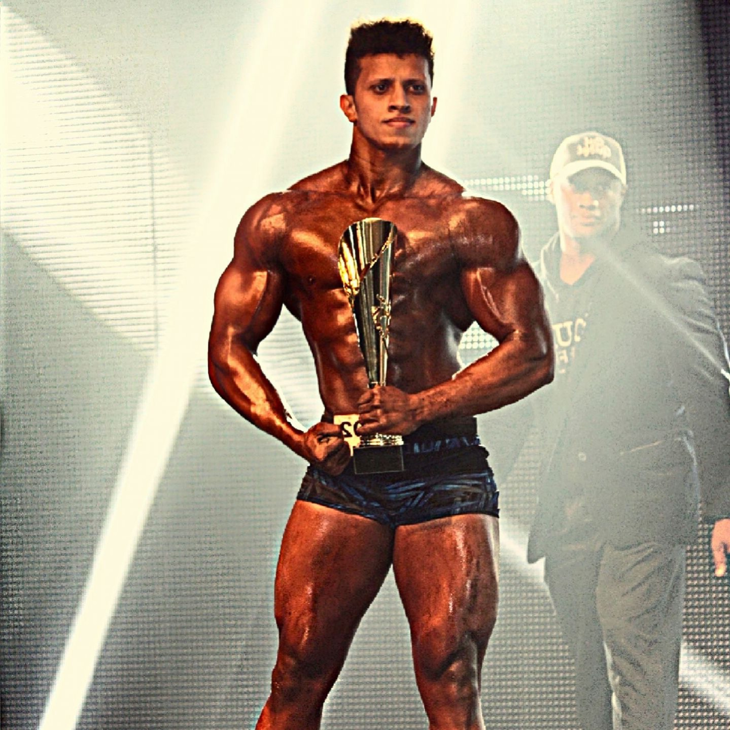 This is photo of Osman Misri at Musclemania World Championship